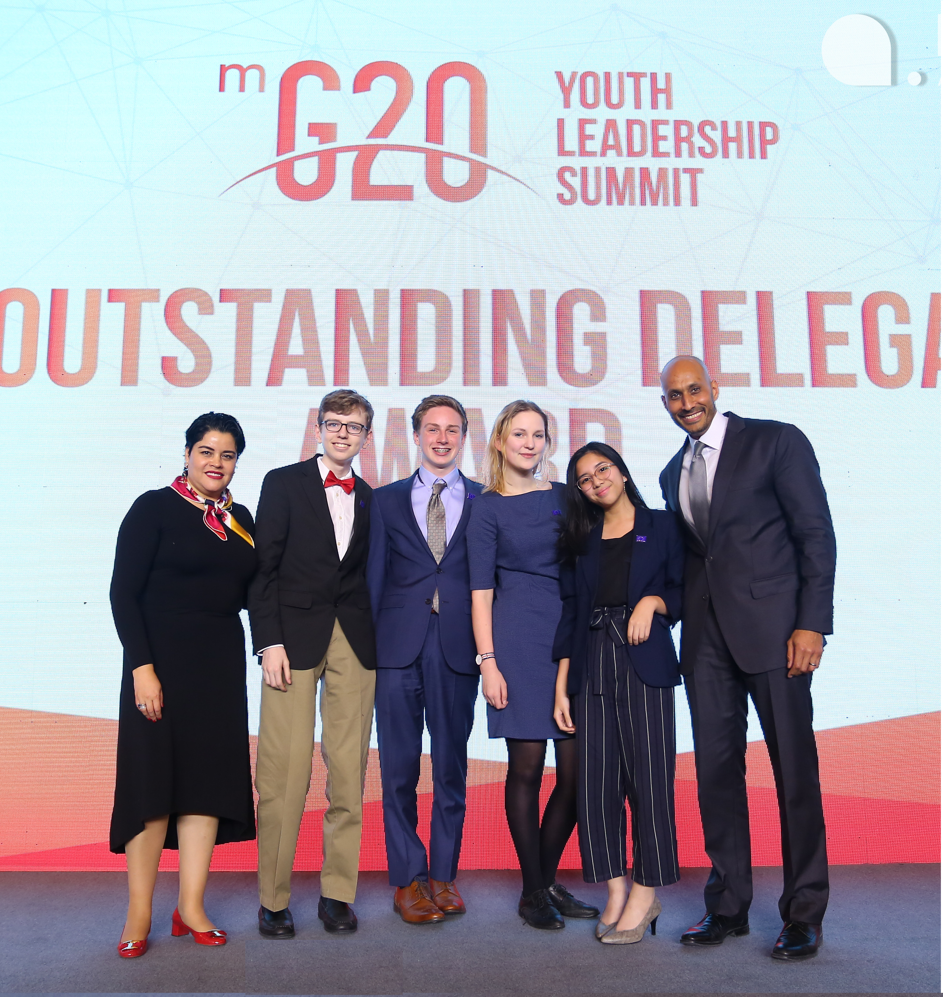 At Knovva Academy's 2019 Model G20 Summit in Beijing, this team won the Most Outstanding Delegation Award.